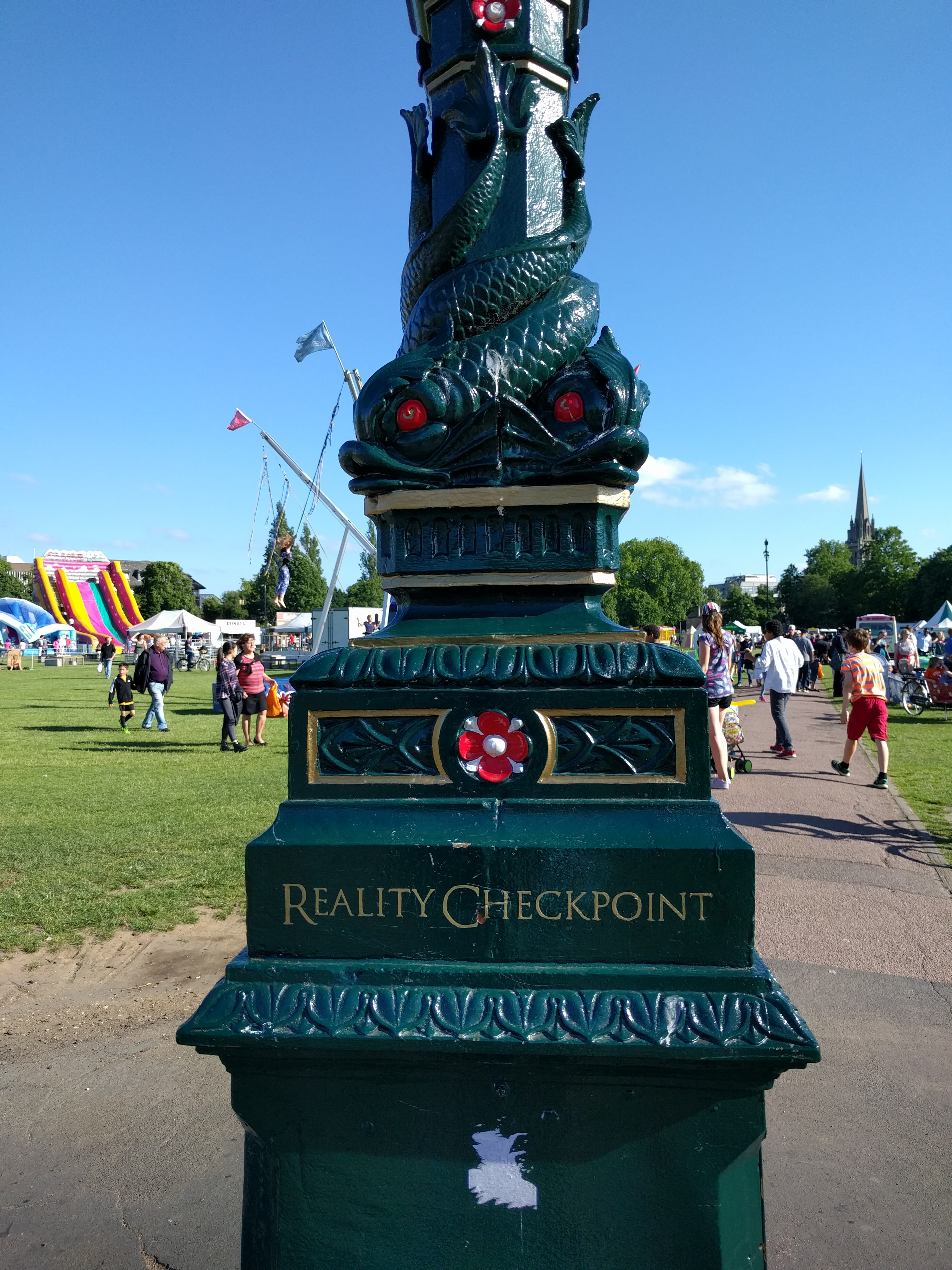 The 'Reality Checkpoint' lamppost on Parker's Piece, Cambridge after its 2017 restoration.